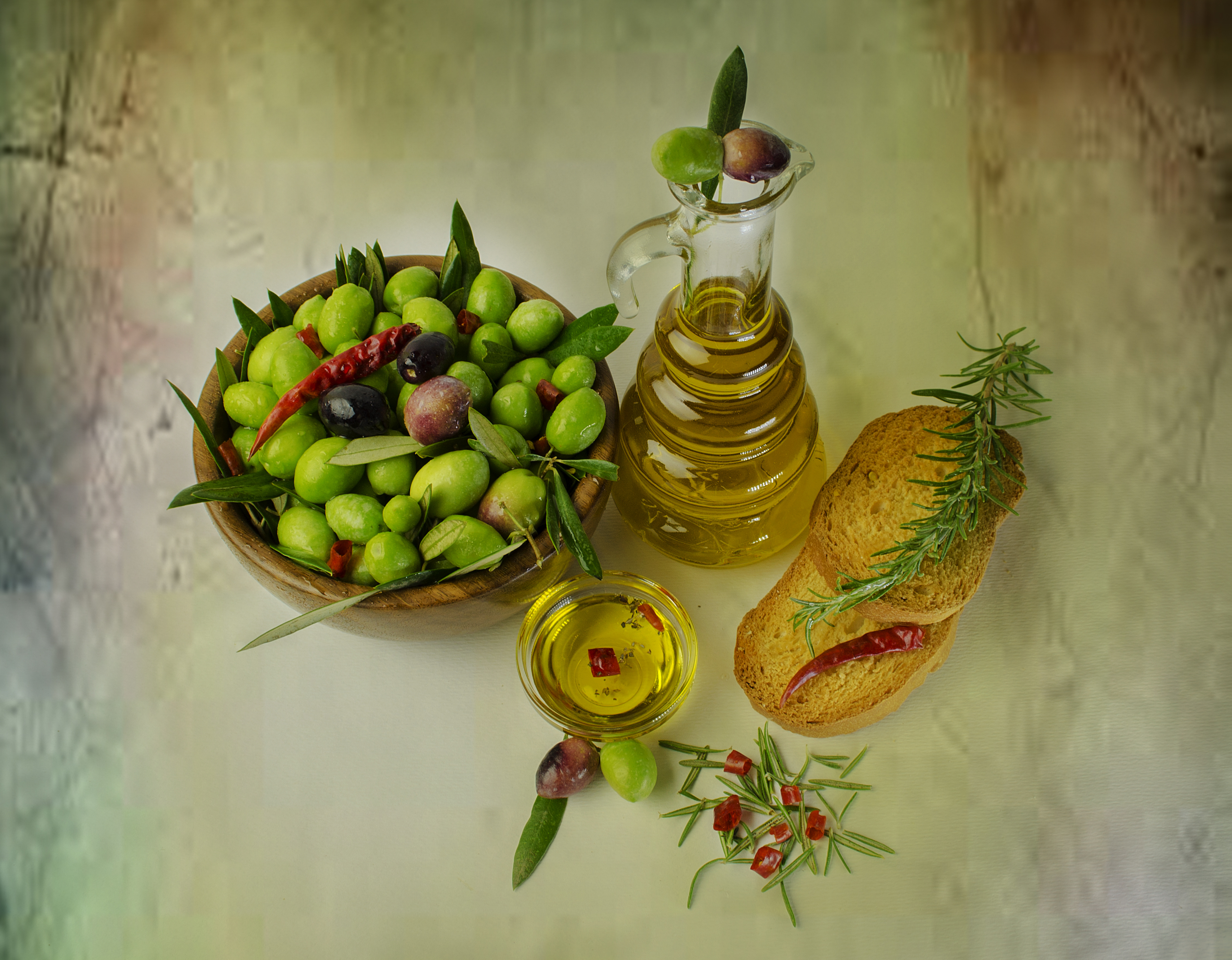 Egyptian olives هذه الصورة تمثل اكلة من مصر